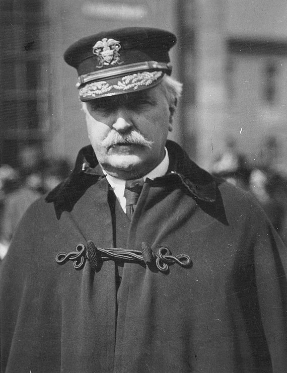 Rear Admiral James H. Glennon, US Navy. Commandant, Third Naval District